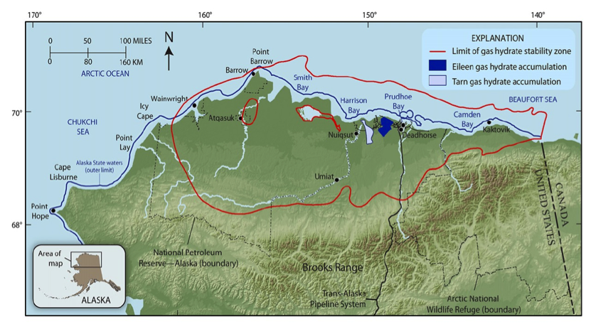 Map of Northern Alaska displaying the Gas Hydrate Total Petroleum System area and the additional outer limit of the expected gas hydrate stability zone